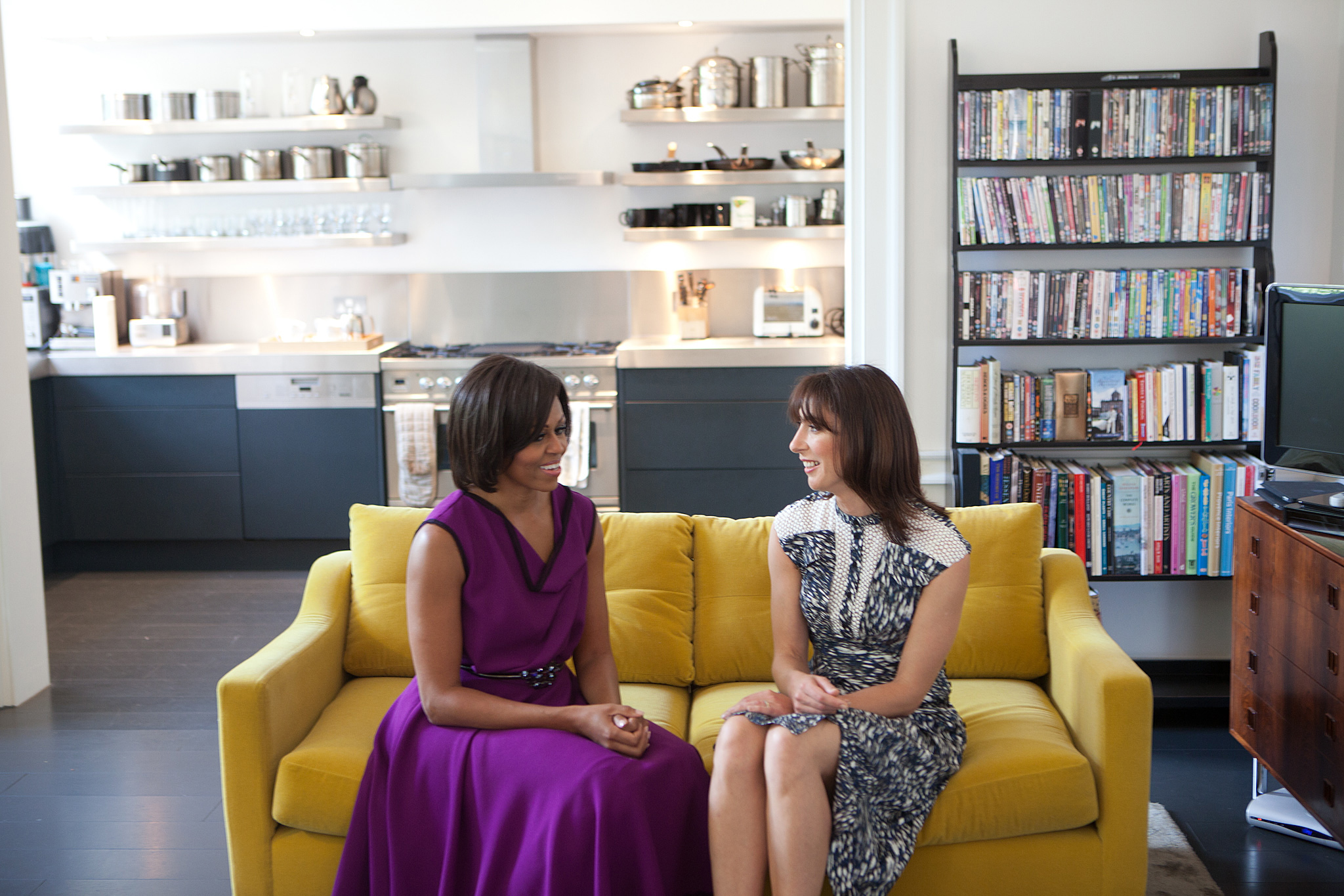 First Lady Michelle Obama and Samantha Cameron, wife of English Prime Minister David Cameron, talk before having tea in the private residence at Downing Street in London, England, May 24, 2011. (Official White House Photo by Lawrence Jackson)